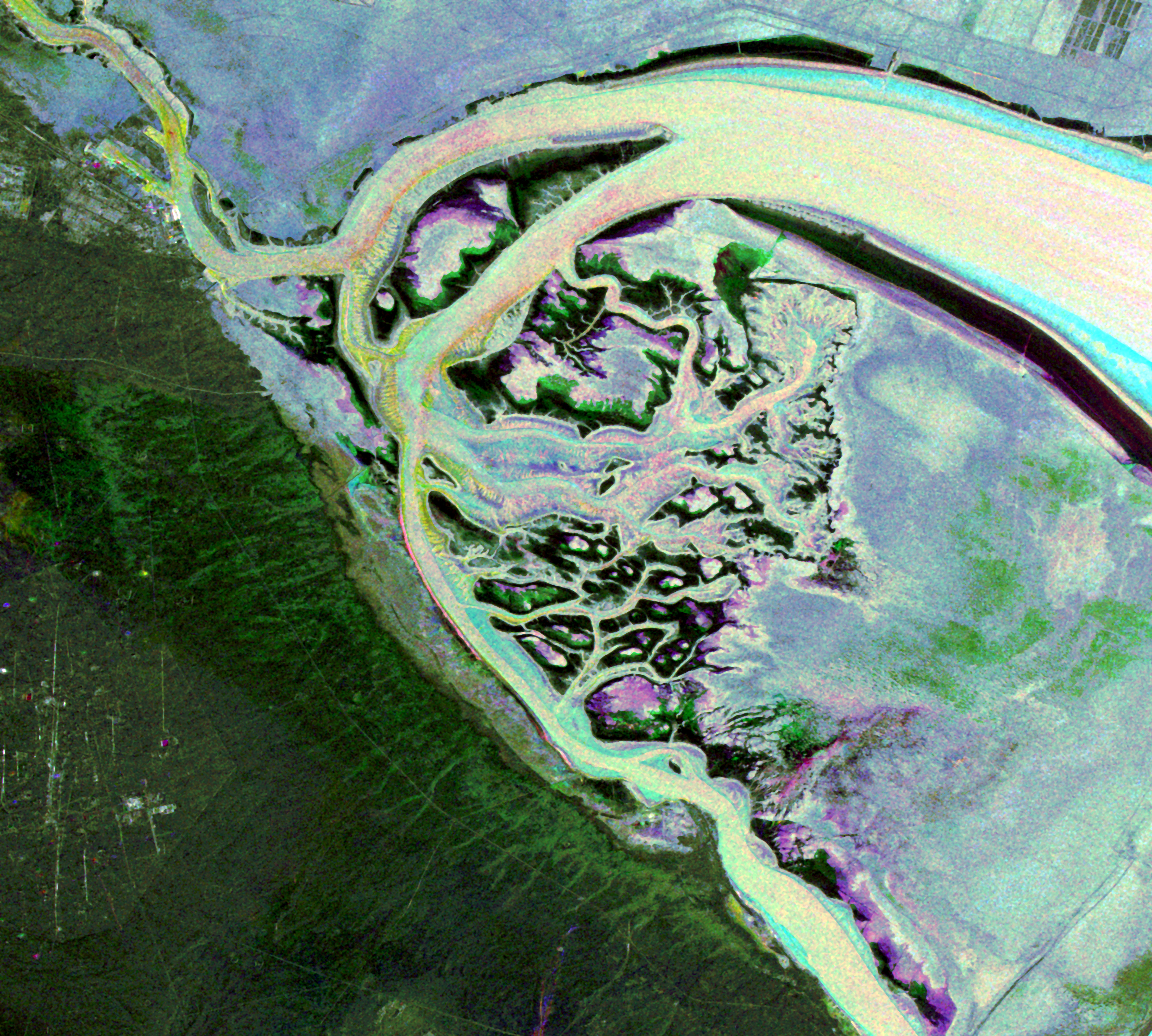 This Envisat image features the Kuwait islands of Warbah and Bubiyan, located at the head of the Persian Gulf. What appears to be water across the top and right side of the image (lilac, green and blue) is land. The brighter yellow, aqua and pink colours represent water. Here, the water currents in these channels can be observed thanks to the radar imagery as they flow out into the gulf. The image was created by combining three Advanced Synthetic Aperture Radar (ASAR) acquisitions (22 August 2009, 26 September 2009 and 31 October 2009) taken over the same area. The colours in the image result from variations in the surface that occurred between acquisitions.